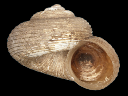 Photo of apertural view of the shell of Amphicyclotulus dominicensis. Width of the shell is 11.8 mm.